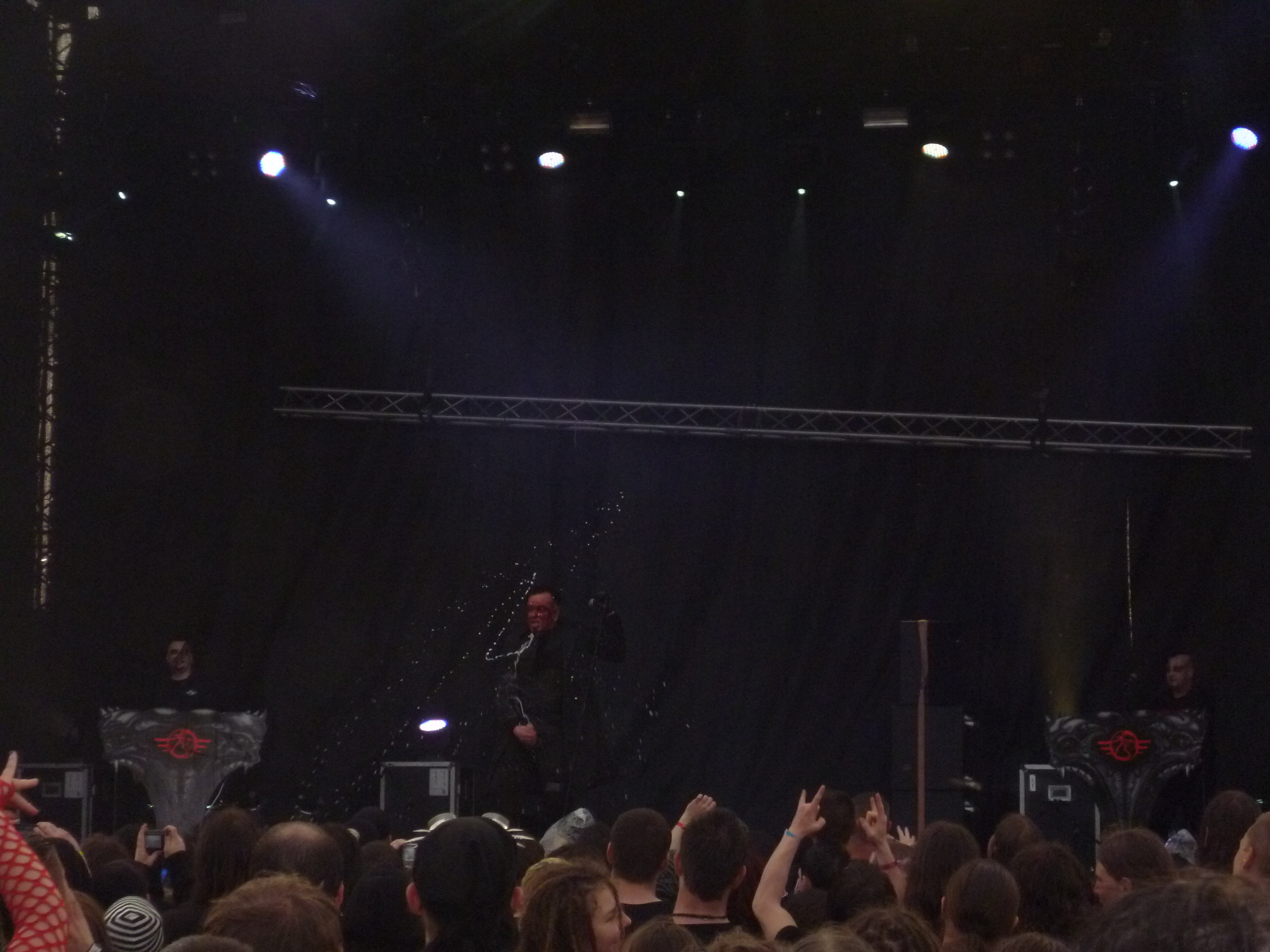 Agonoize live at the Hexentanz-Festival 2011